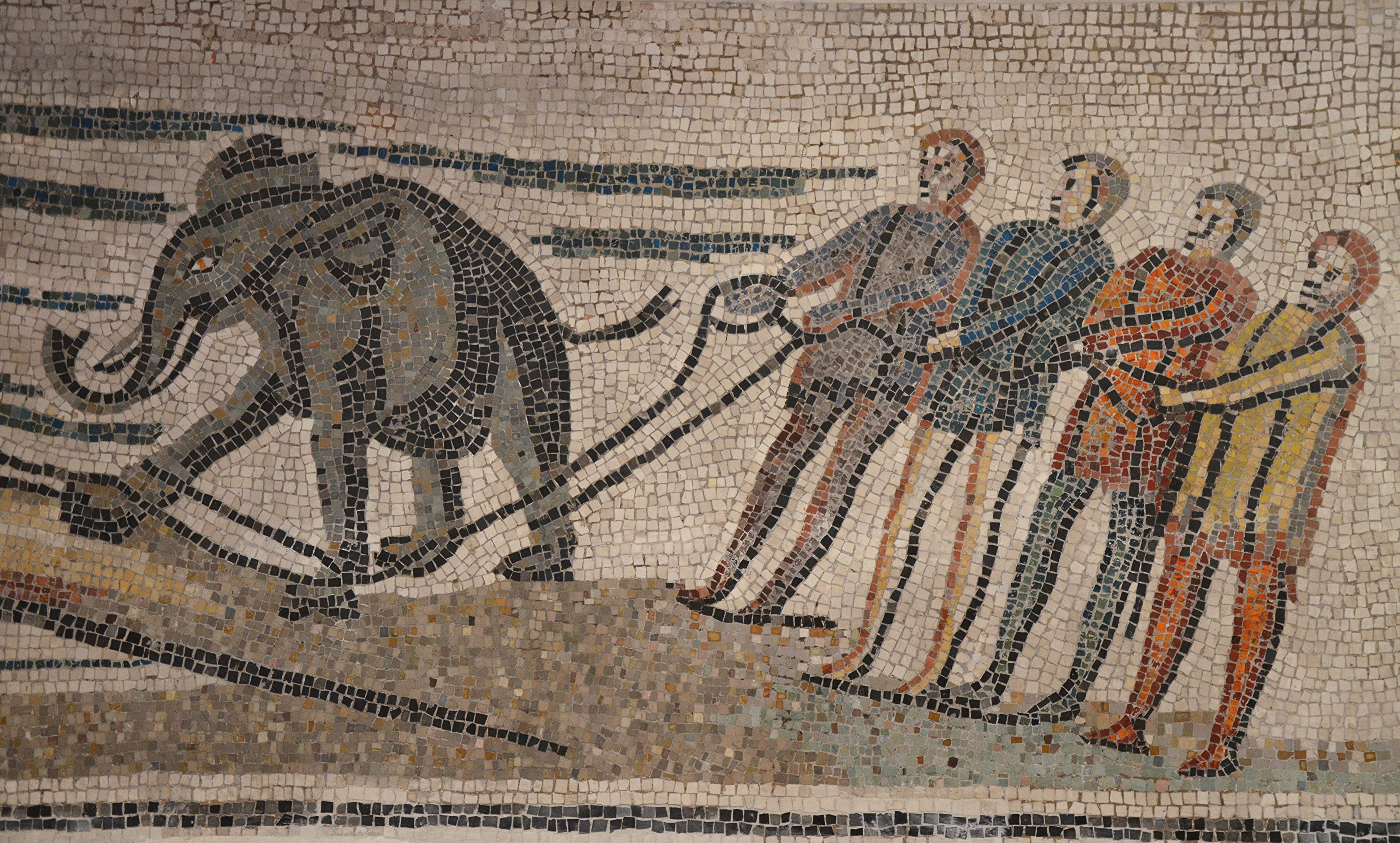 Detail of Roman mosaic from Veii (Isola Farnese, Italy) depicting an African elephant being loaded onto a ship, 3rd-4th century AD, Badisches Landesmuseum Karlsruhe, Germany